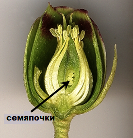 Ovules in flower in russian